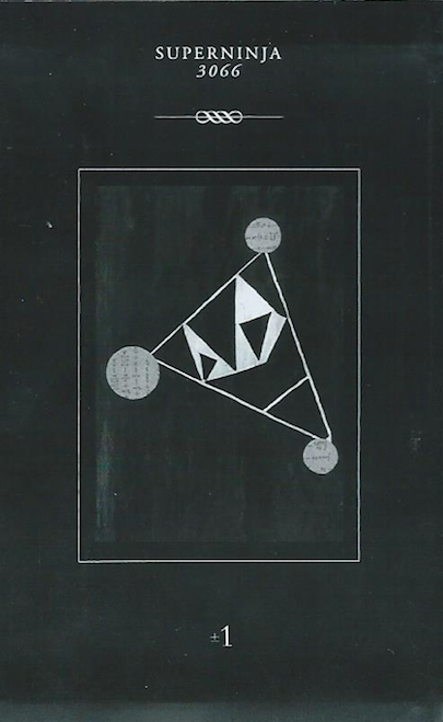 Portada del album -1 +1 (2005) Superninja 3066